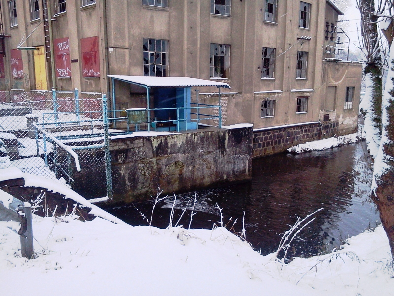 Elektrownia wodna w Łobzie